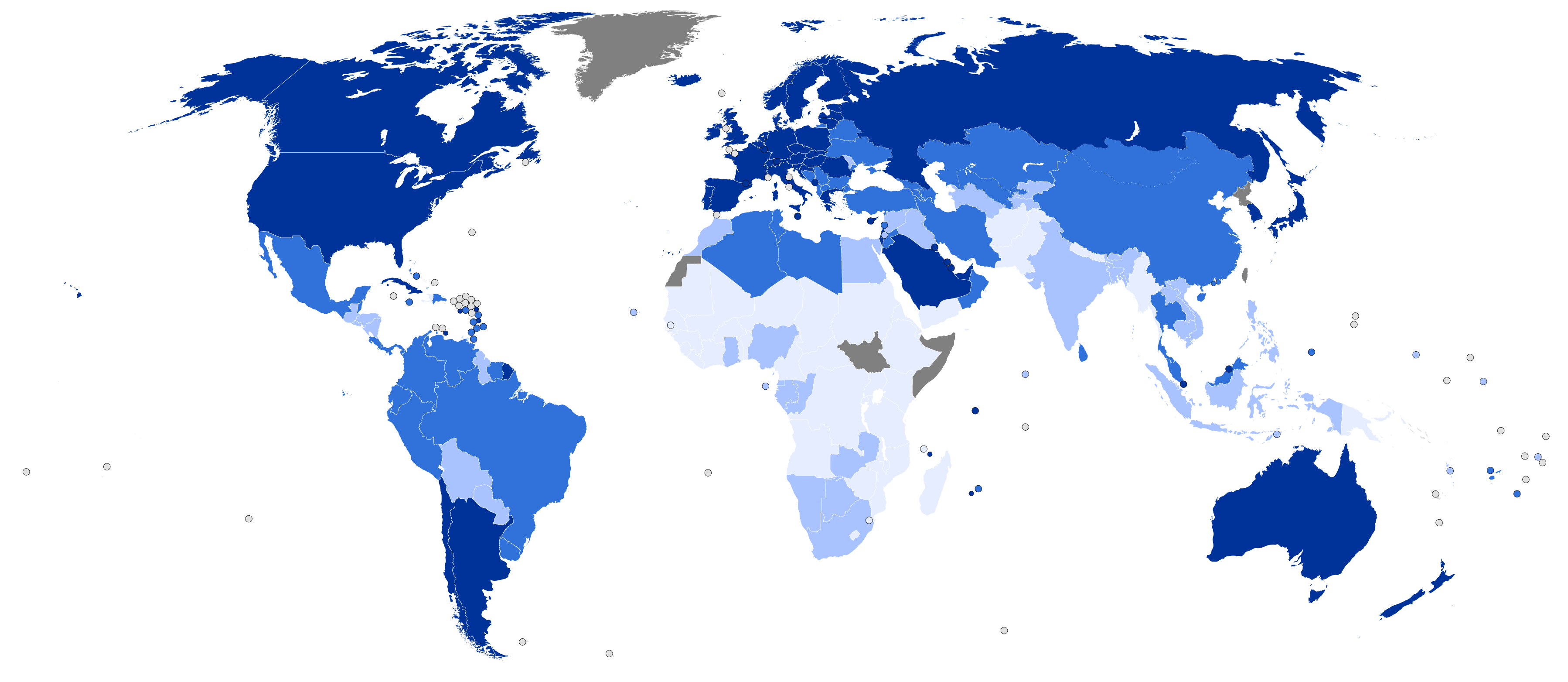 2016 HDI estimates for 2015